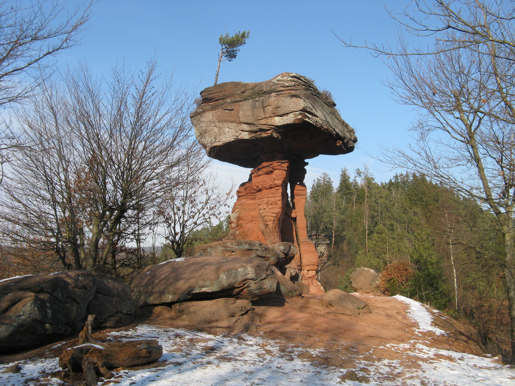 Teufelstisch/Pfalz (Germany)